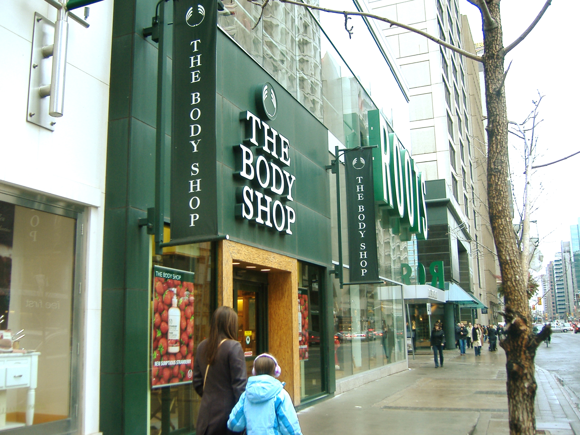 A Body Shop store on Bloor St. in Downtown Toronto, Canada.